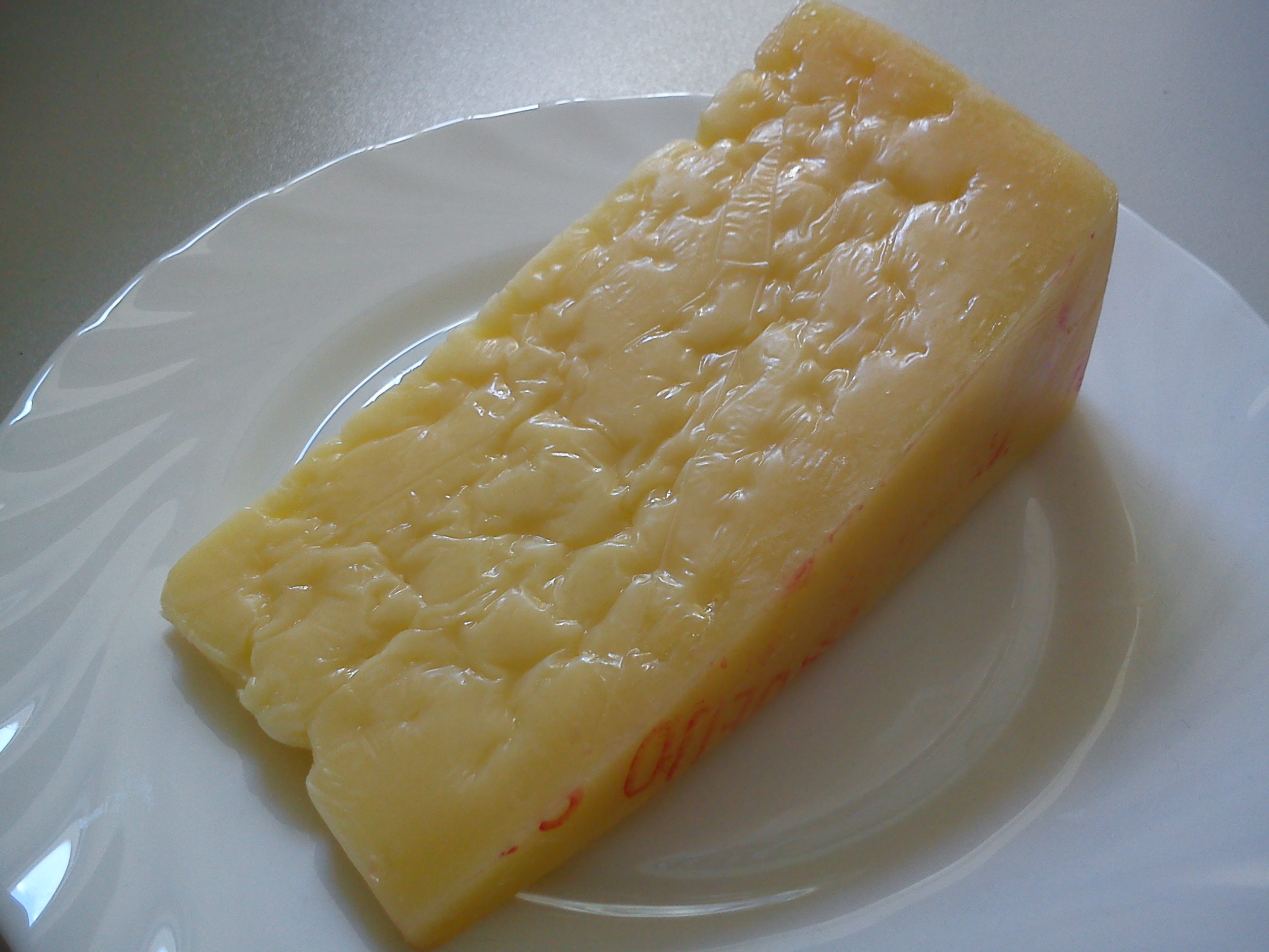 Sao Jorge - Cheese from Asores.